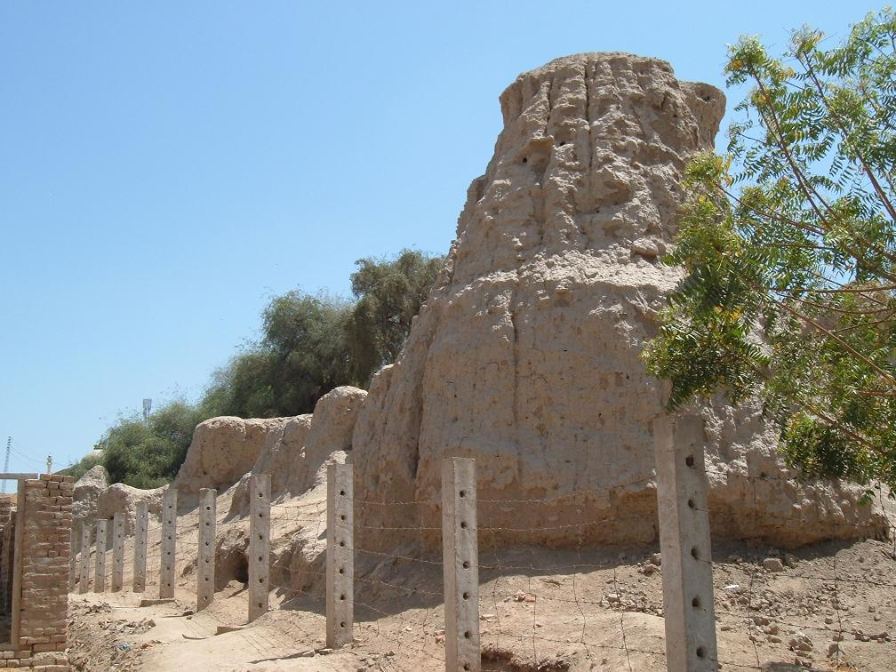 Mumal -Ji- Mari mound